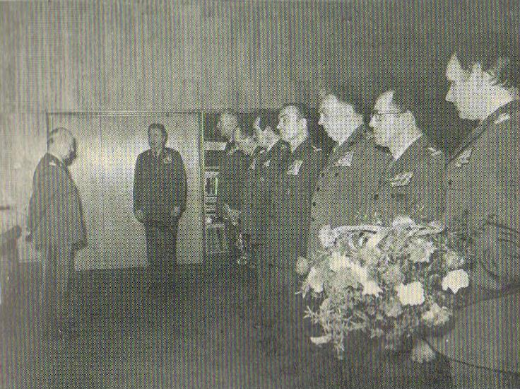 60th birthday of general Jozef Baryla, Chief of the Main Political Administration of Polish People's Army